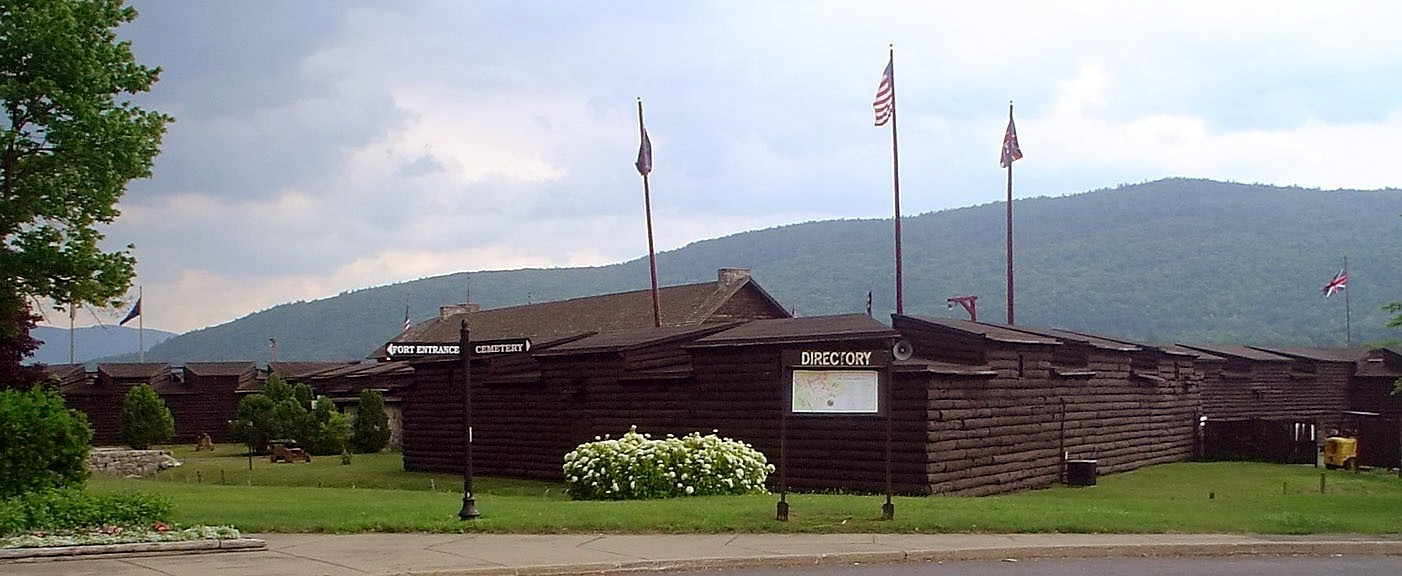 Fort William Henry today